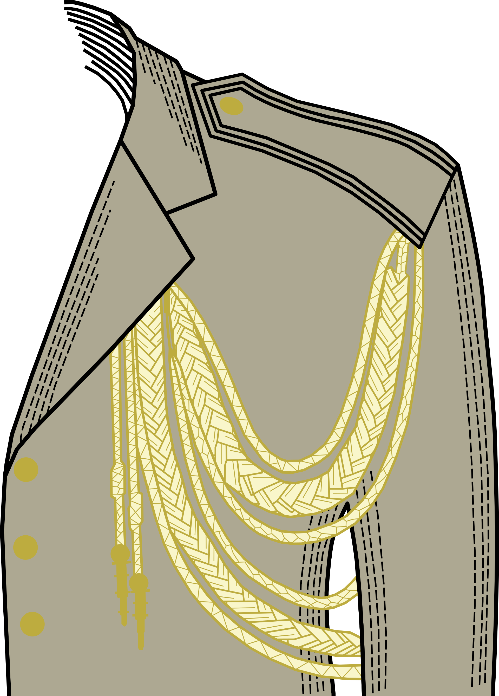 Aiguillette is a cord with metal tips or lace tags